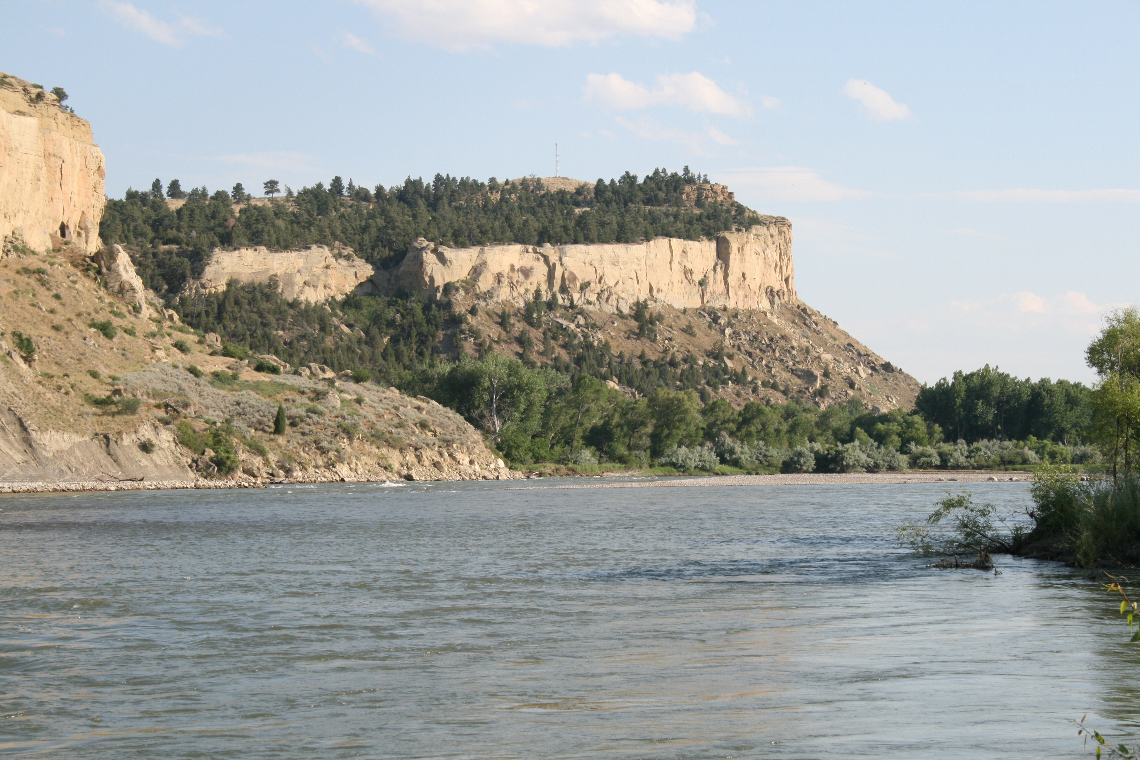 The Yellowstone River and Coburn Hill — near Billings, Montana.